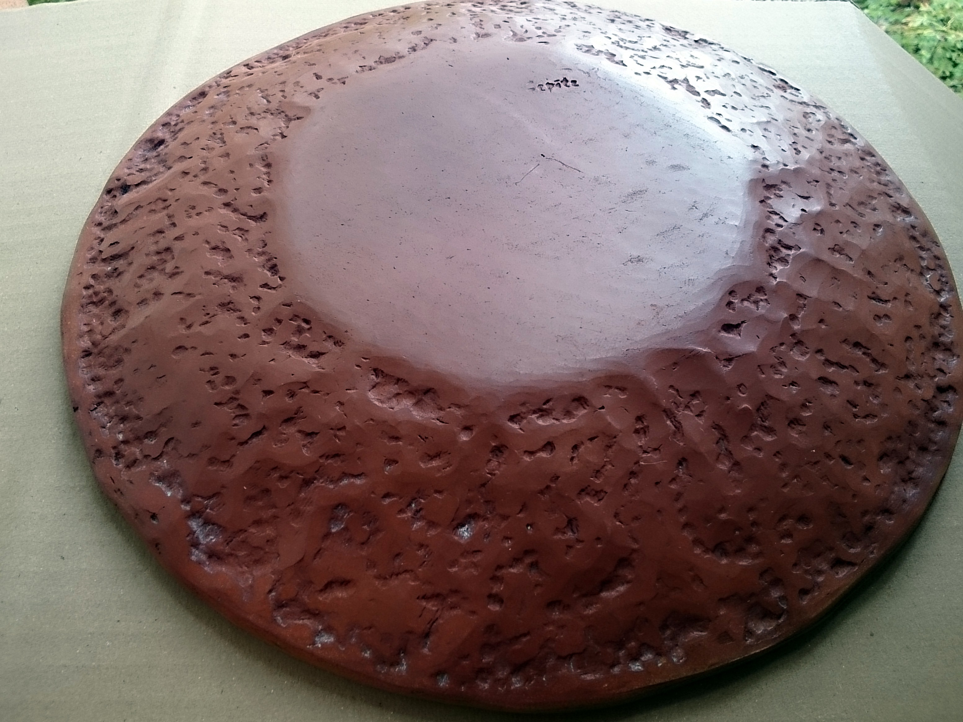 A piece by Ingrīda Cepīte, shaped without using a potter's wheel.